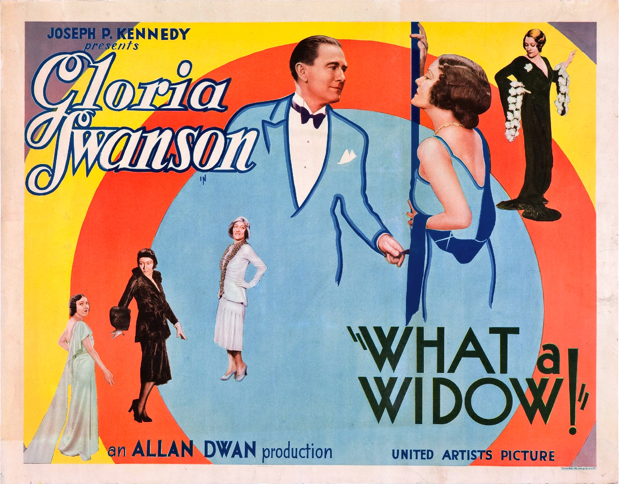 Poster for the American pre-Code romantic comedy film What a Widow! (1930). There are no copyright marks on the item. At bottom right is Country of origin USA.